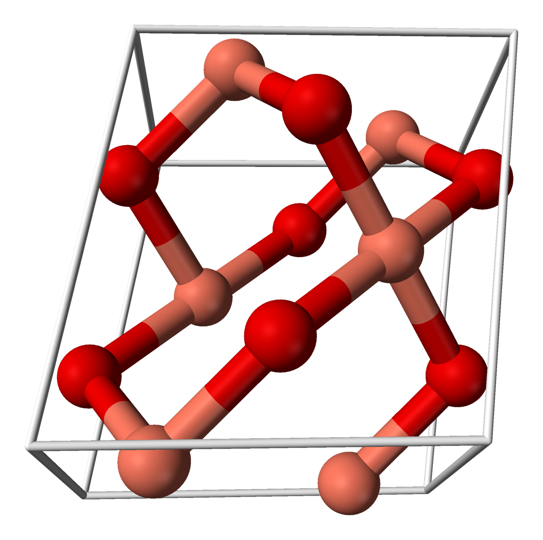 Ball-and-stick model of the unit cell of copper(II) oxide, CuO